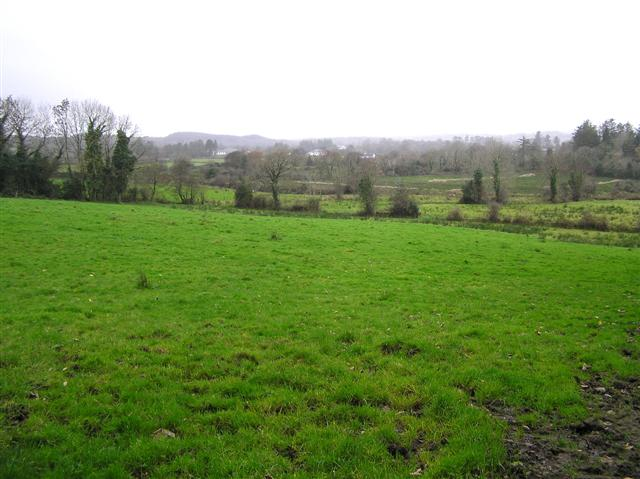 Killaghaduff Townland Looking south-west